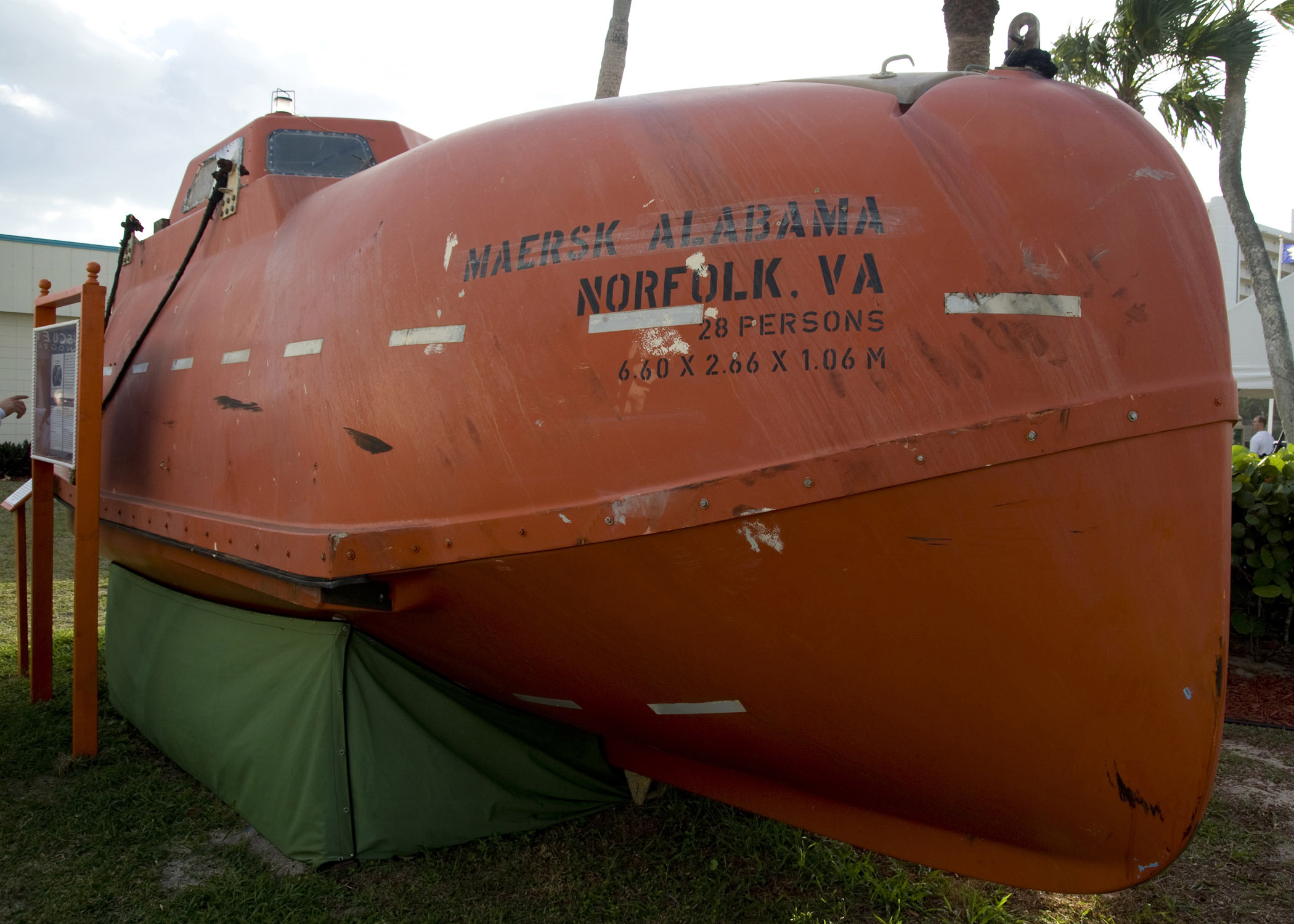 FORT PIERCE, Fla. (Nov. 7, 2009) The life raft from the container ship MV Maersk Alabama that Capt. Richard Phillips was held captive in by Somali pirates is on permanent display at the National Navy UDT-SEAL Museum in Fort Pierce, Fla. Phillips thanked the members of the UDT-SEAL community for his rescue during remarks at the 2009 Veterans Day Ceremony and Muster XXIV. The annual muster is held at the museum, which is located on the original training grounds of the Scouts and Raiders. (U.S. Navy photo by Mass Communication Specialist 2nd Class Joseph M. Clark/Released)